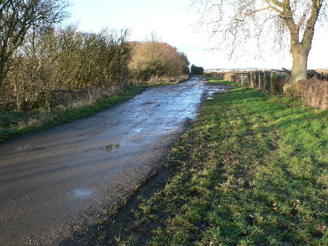 Ermine Street Roman Road. Looking N from near the B1178. The route is interrupted here by RAF Waddington , whose hangars can just be seen on the horizon.